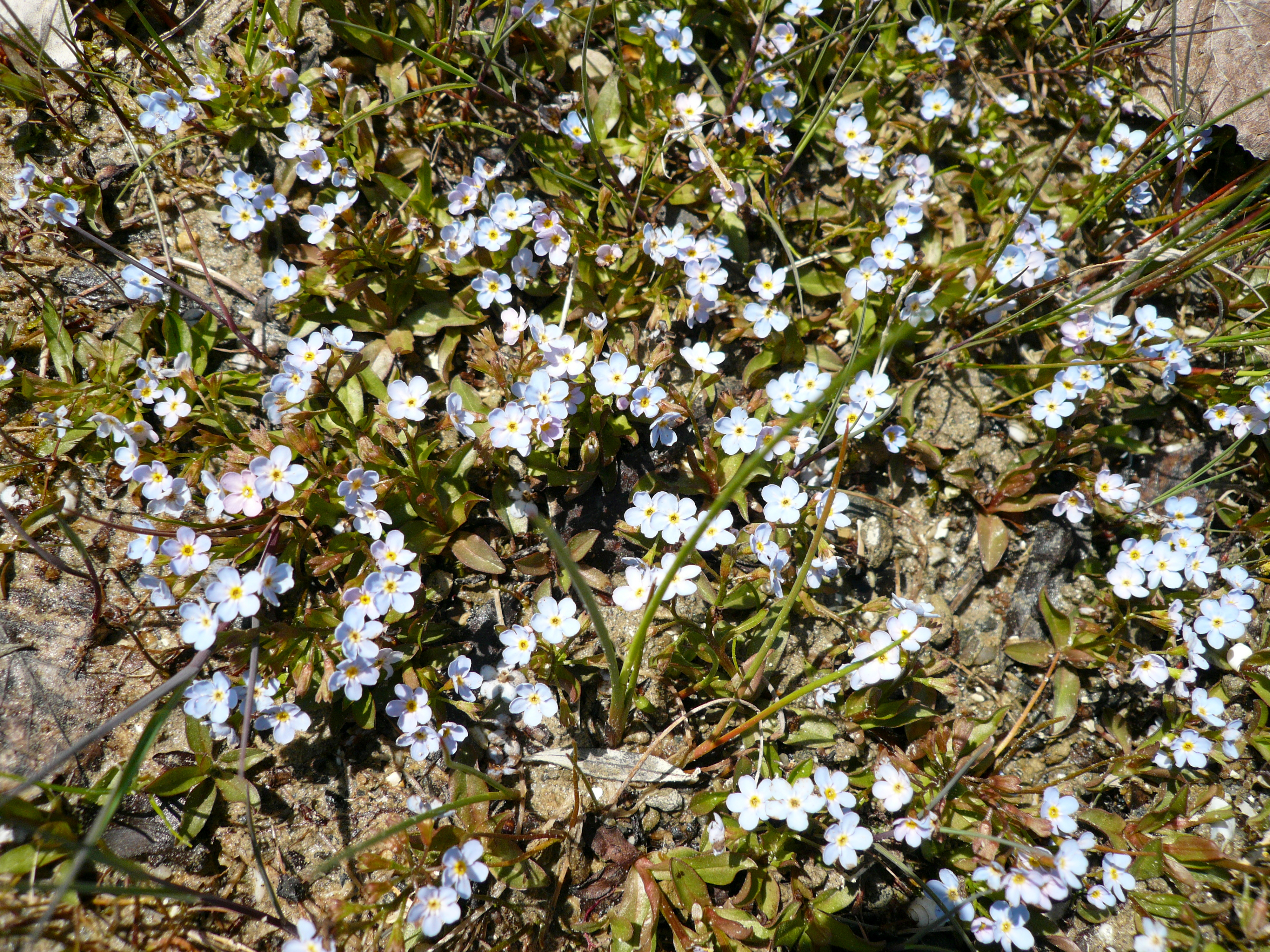 Bodensee-Vergissmeinnicht (Myosotis rehsteineri)